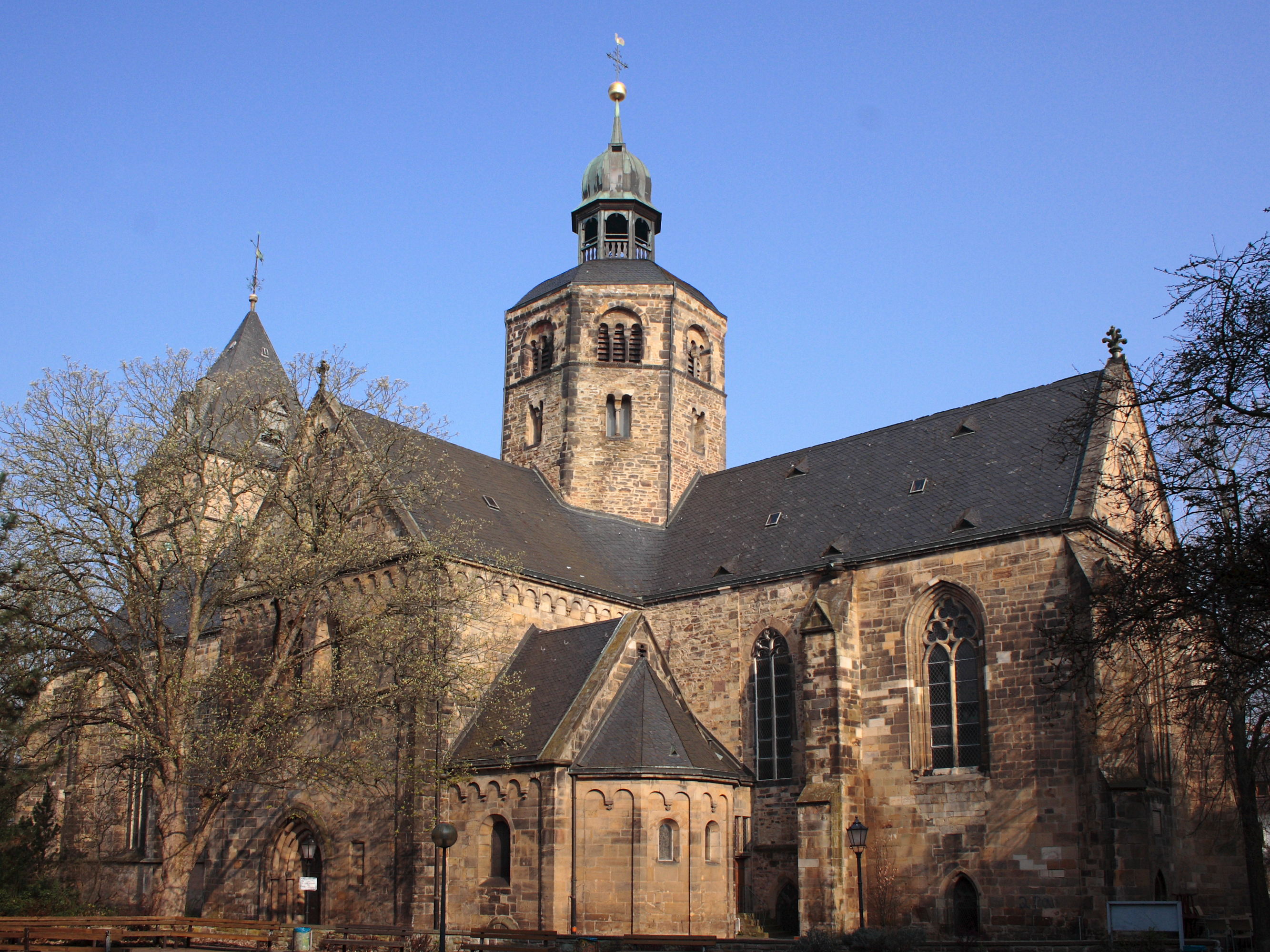 This image shows the church "Münsterkirche St. Bonifatius" in Hameln, Germany.